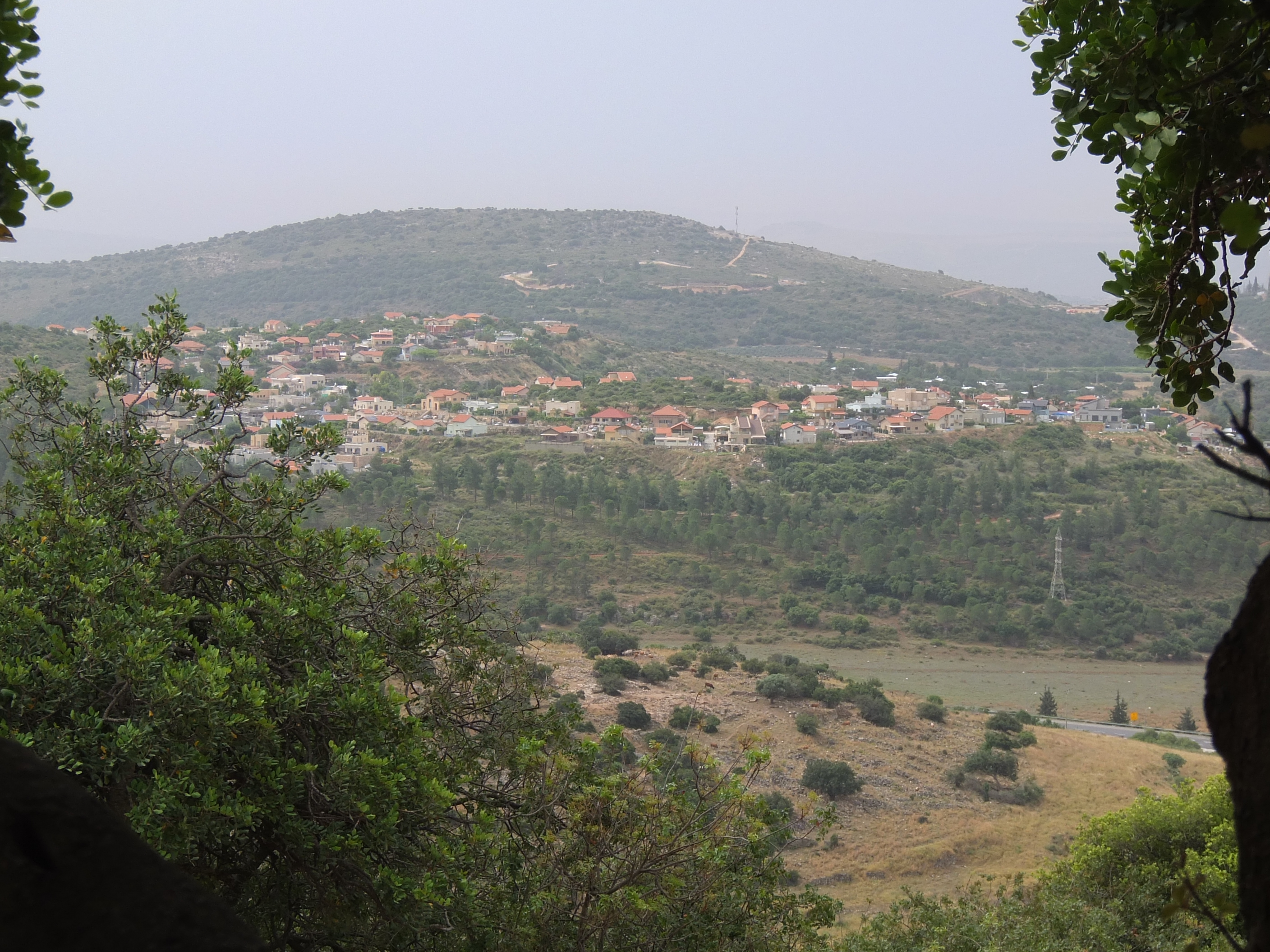 View of Kfar Hananya from Bersabe (Kh. Abu esh-Sheba)